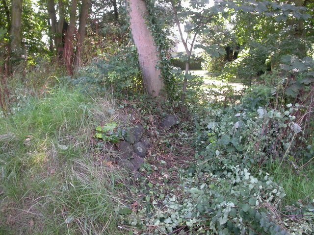 Christchurch, Anglo-Saxon wall